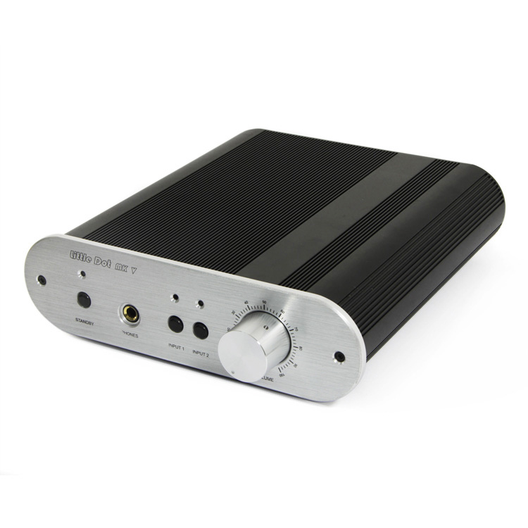 The Little Dot MK V is our top-of-the-line single-ended solid-state headphone amplifier in the Little Dot MK-series. A "dual-mono" design essentially has two amplifiers within the same chassis with dual power sources, dual rectification, dual filters, and dual voltage regulation! This allows for vastly improved channel separation, reduced cross-talk and minimal inter modulation distortion resulting in expanded sound-stage, imaging precision, and lower overall noise. The Little Dot MK V also provides two inputs so you can connect two sources, and conveniently switch between them via the front panel Input buttons. The Little Dot MK V's sound performance is equal with its vacuum tube-based brother, the Little Dot MK IV, albeit with different areas of strength and sonic characteristics. While the Little Dot MK IV has that unforgettable natural warmth, rich mid-range, and vast sound-stage vacuum tubes, the solid-state Little Dot MK V focuses on musical fidelity, full dynamic range, transparency, detail, thundering, impactful bass, as well the sound-stage and imaging ability afforded by the "Dual-Mono" circuit. For those who are perhaps disinclined to the maintenance and mystique of vacuum tubes, and just want exceptional performance without any upkeep, the Little Dot MK V is the headphone amplifier for you!